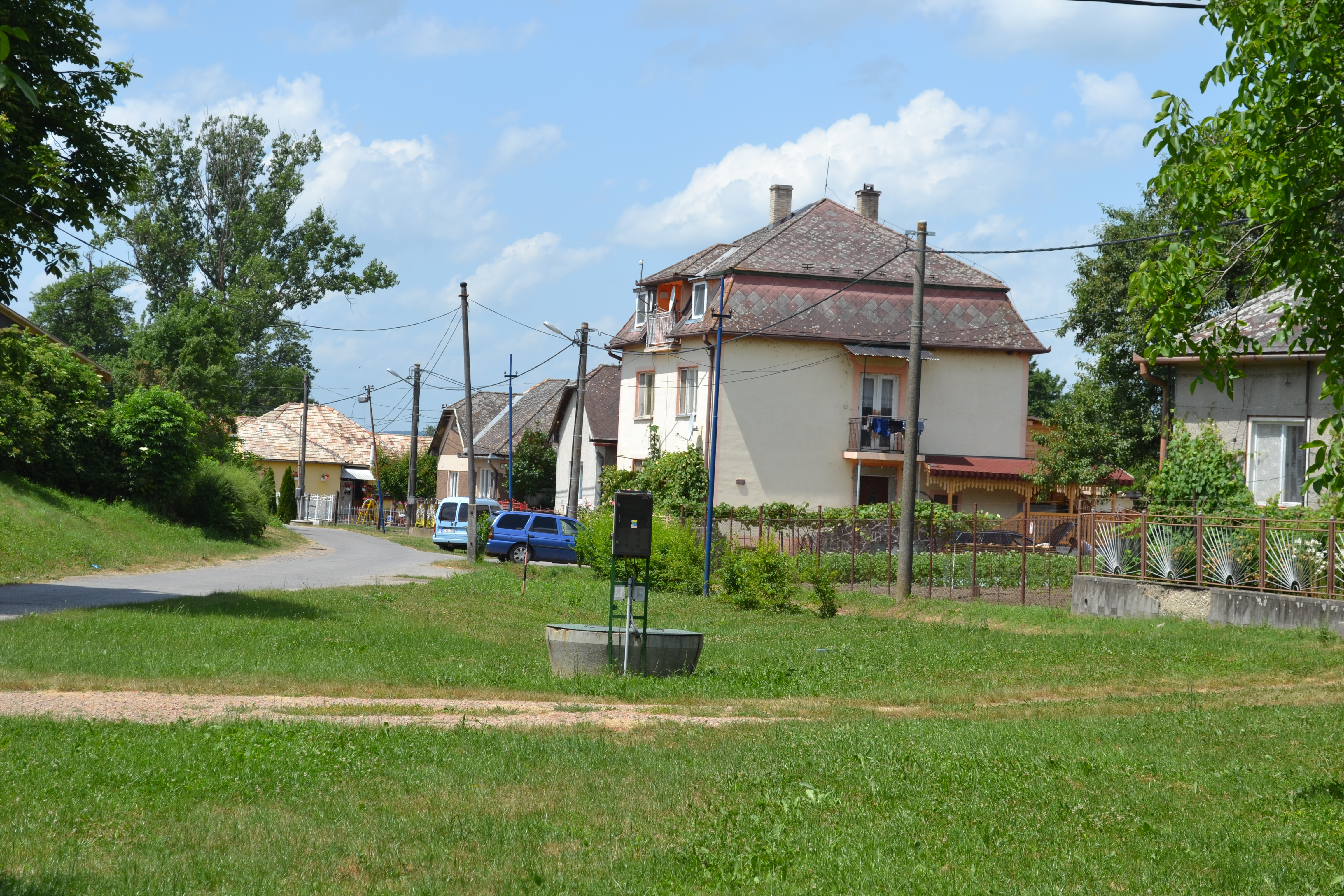 Street of the village Šimonovce